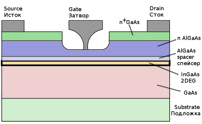 Cross section sketch for an InGaAs HEMT. Inspired by File:PHEMT_cross_section_de.svg by Tim Starling and user Cepheiden.